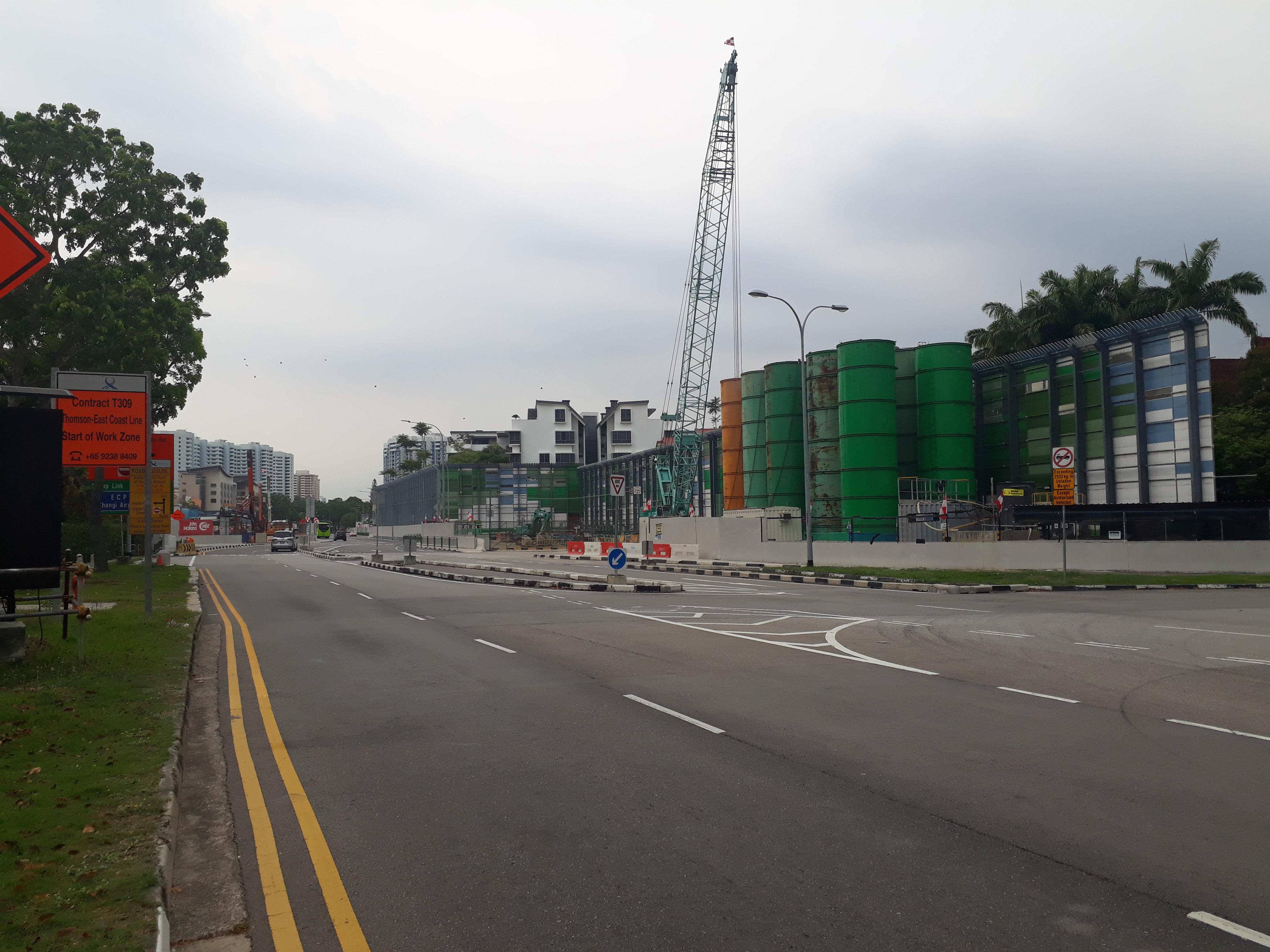 Siglap Under Construction